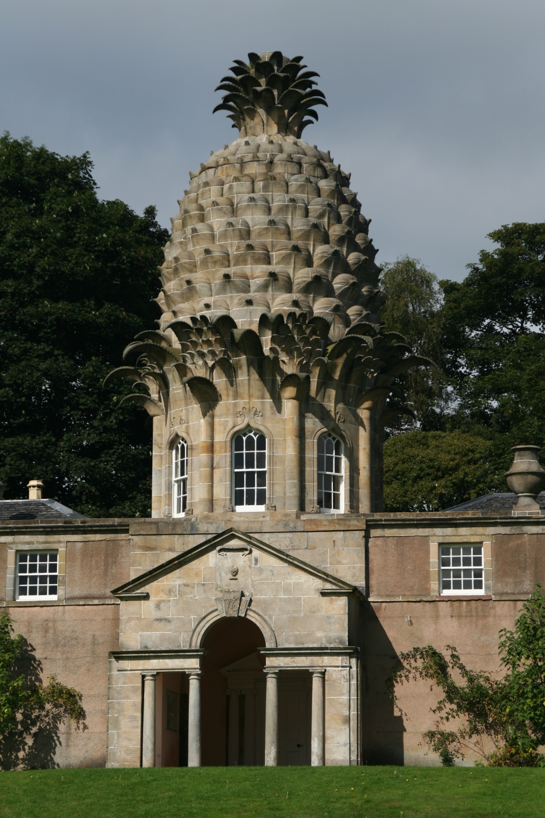 Pineapple Dunmore Park